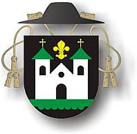 Coat of arms of dean´s office Uherský Brod (CZ)